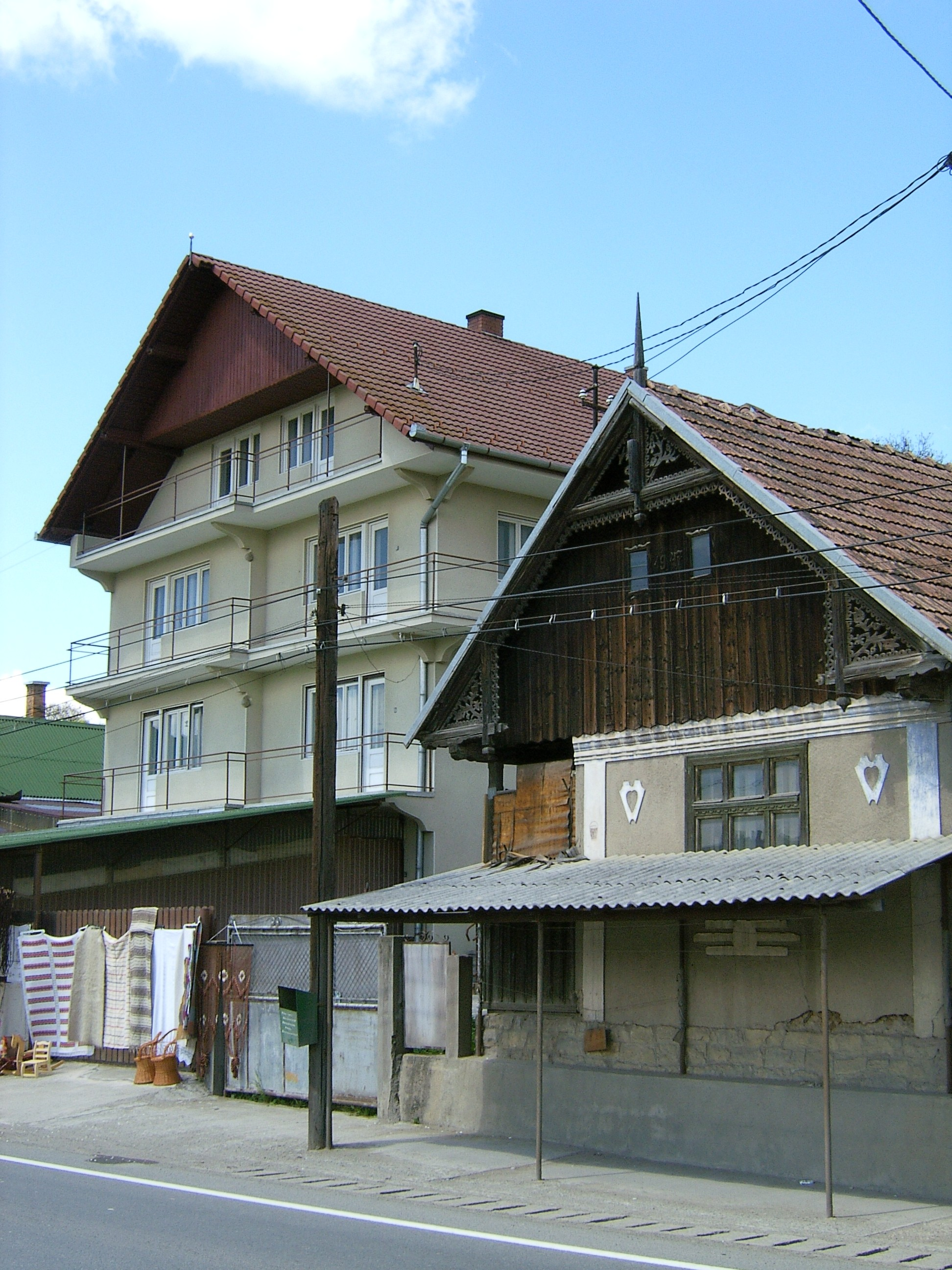 Buildings in Izvoru Crişului, Transylvania